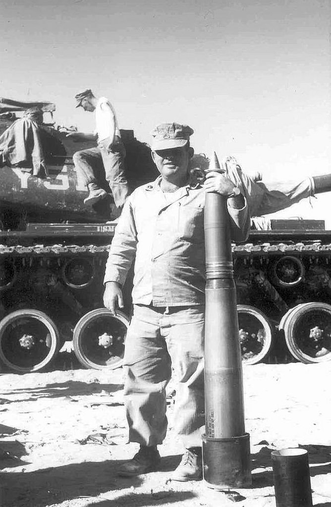 A USMC staff sergeant poses at the firing range with an assembled high explosive munition, probably in 1959 as the first M103A1s arrived with the 1st Tank Battalion. The projectile base is placed in the cap of the fiber shipping container.